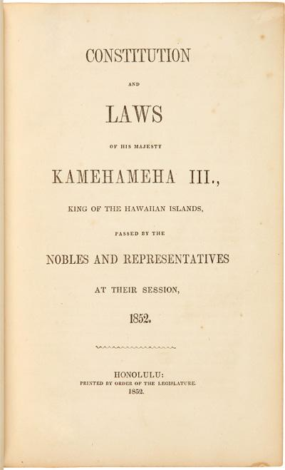 A picture of the front page of the english edition of the 1852 constitution of Hawaii